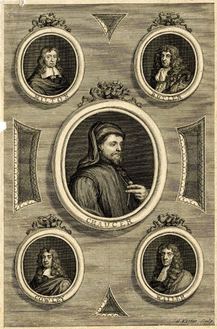 Milton, Butler, Chaucer, Cowley, Waller, engraving, showing the busts of five of England's poets: Samuel Butler, John Milton, Edmund Waller, Abraham Cowley and Geoffrey Chaucer. Engraving by British printmaker George Vertue. Dated 1717. Courtesy of the British Museum, London.